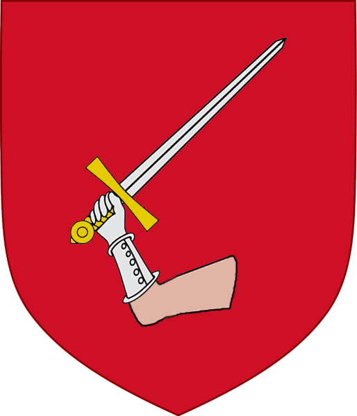 Arms of the Dalcassians